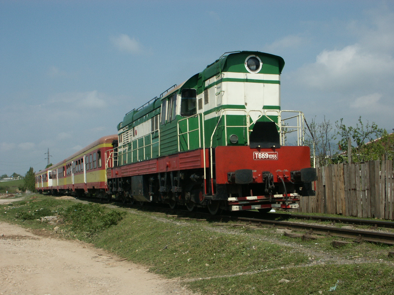 Train in Albania heading from Laç to Durrës, Spring 2007